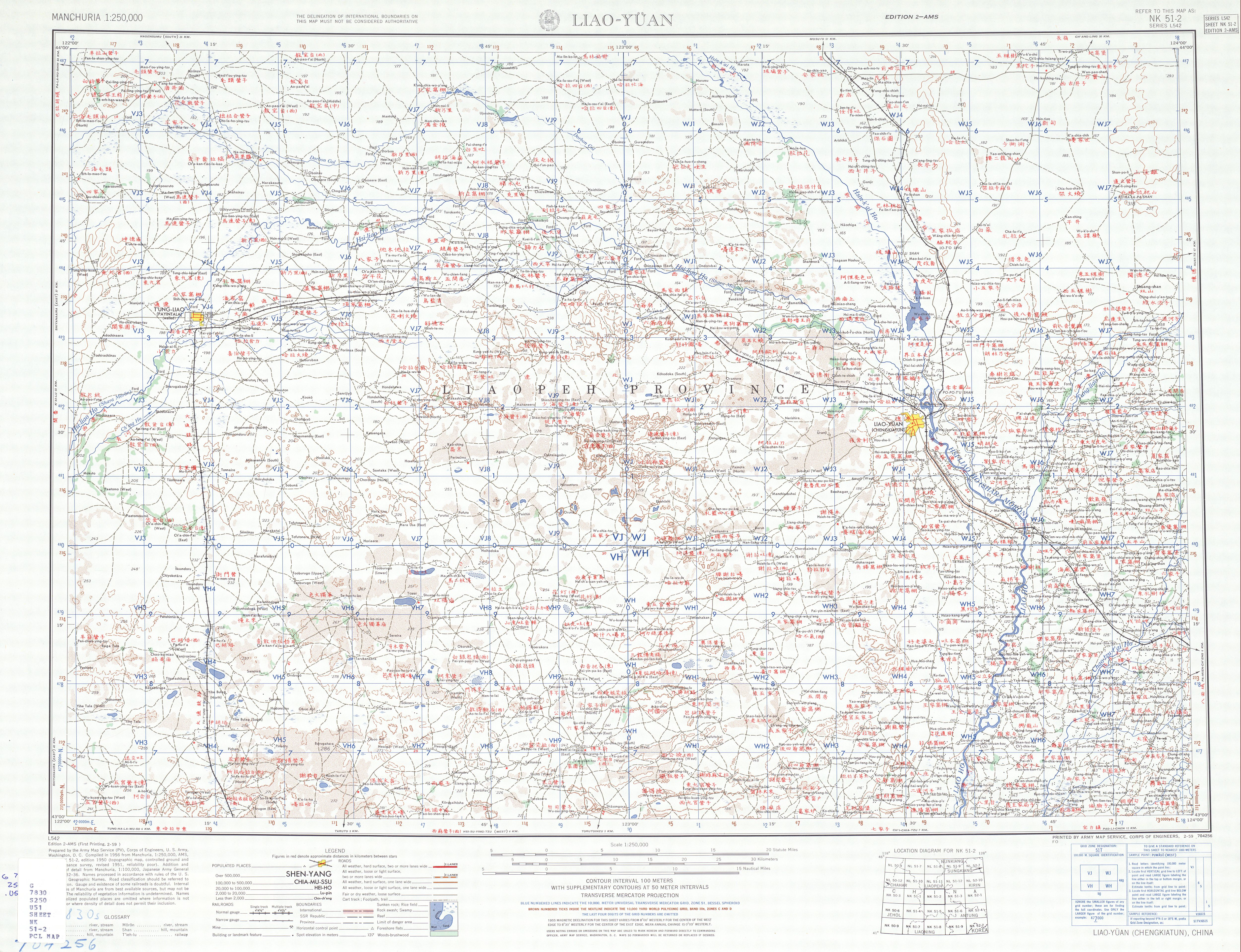 Manchuria AMS Topographic Maps